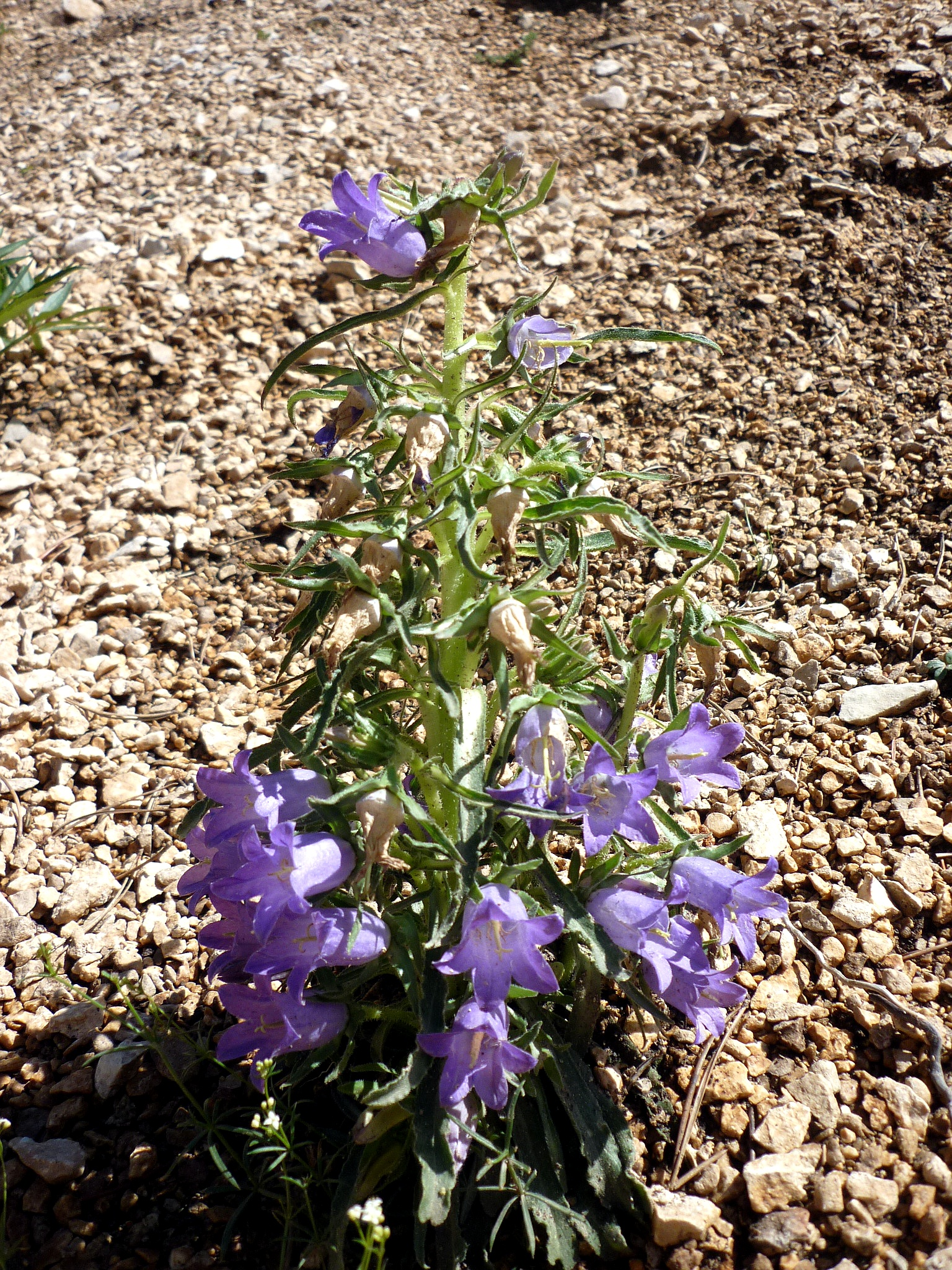 Campanula speciosa. In la Bòfia, Odèn (Solsonès - Catalunya). To 1.730 m. altitude